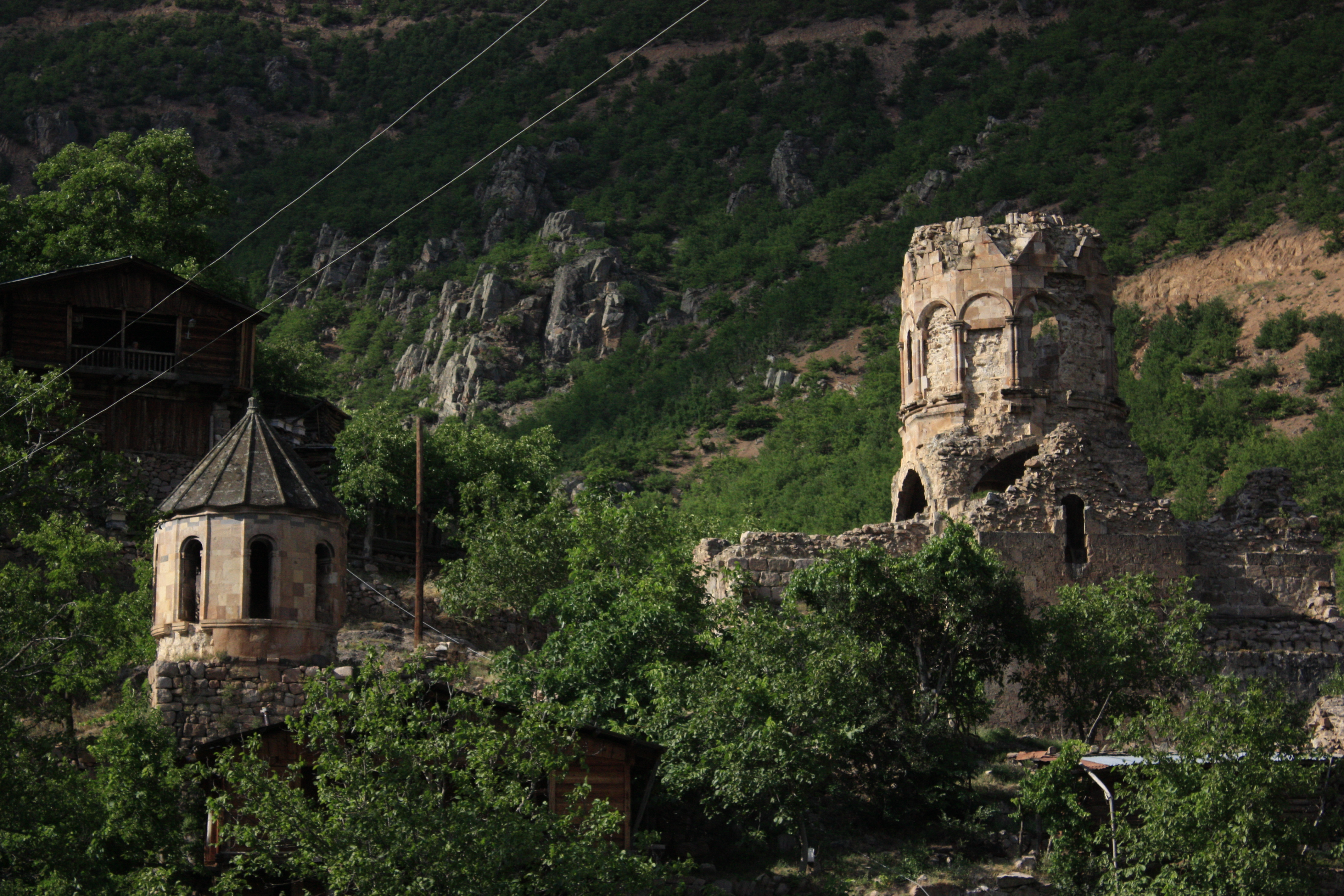 Georgian cathedral Khandzta in historical Georgian region Tao-Klarjeti